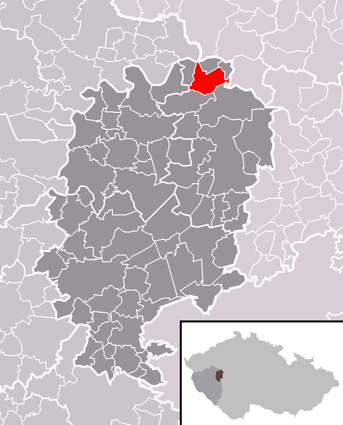 Location of Podmokly municipality within Rokycany District and identical administrative area of Rokycany as a Municipality with Extended Competence.